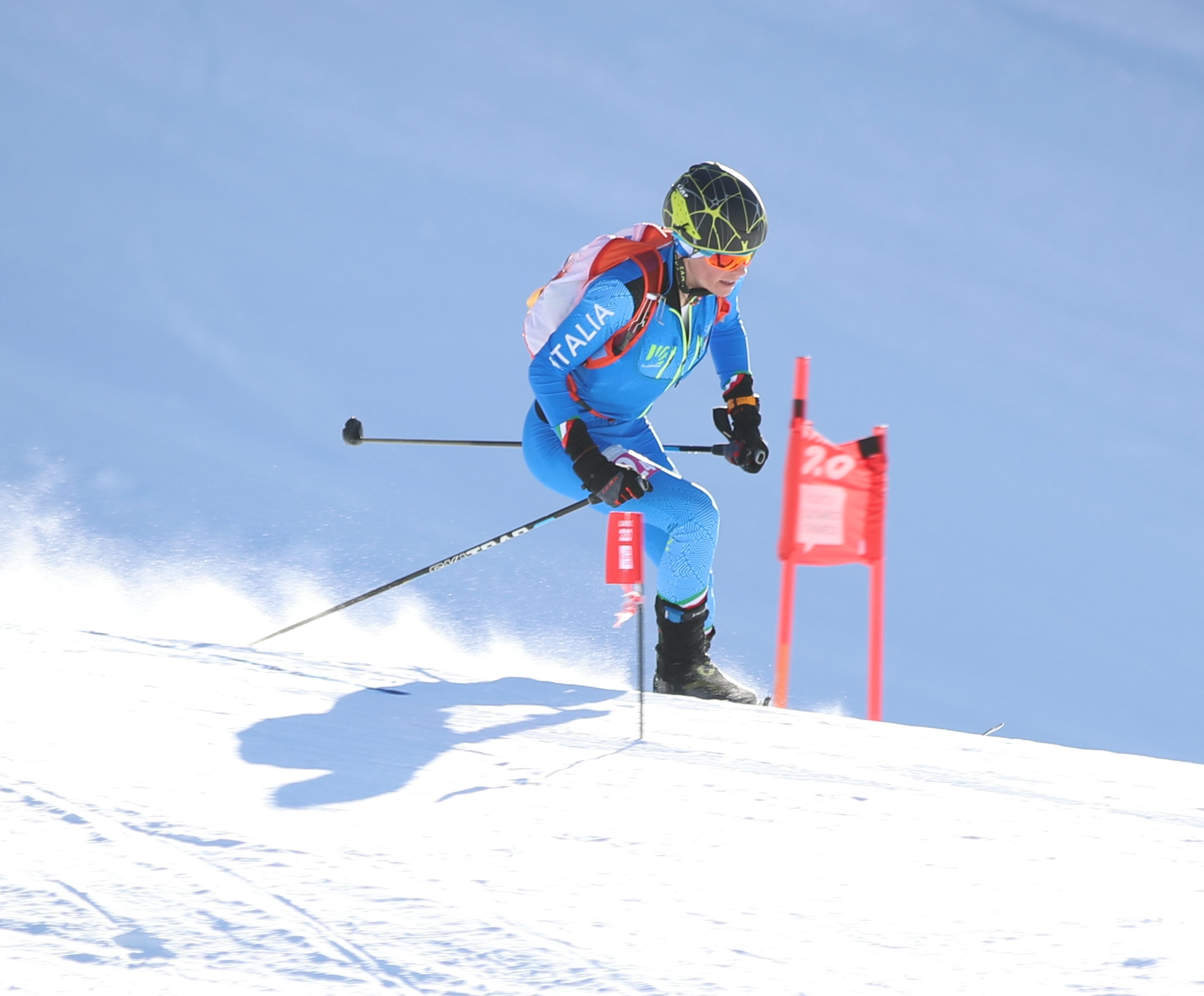 Ski mountaineering Mixed Relay at the 2020 Winter Youth Olympics in Lausanne